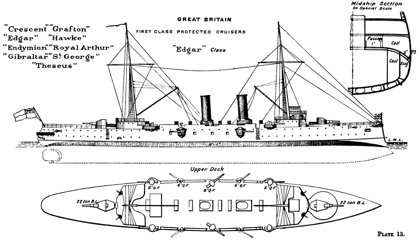 Right elevation, deck plan and hull cross-section diagrams, illustrating British Edgar class protected cruiser.